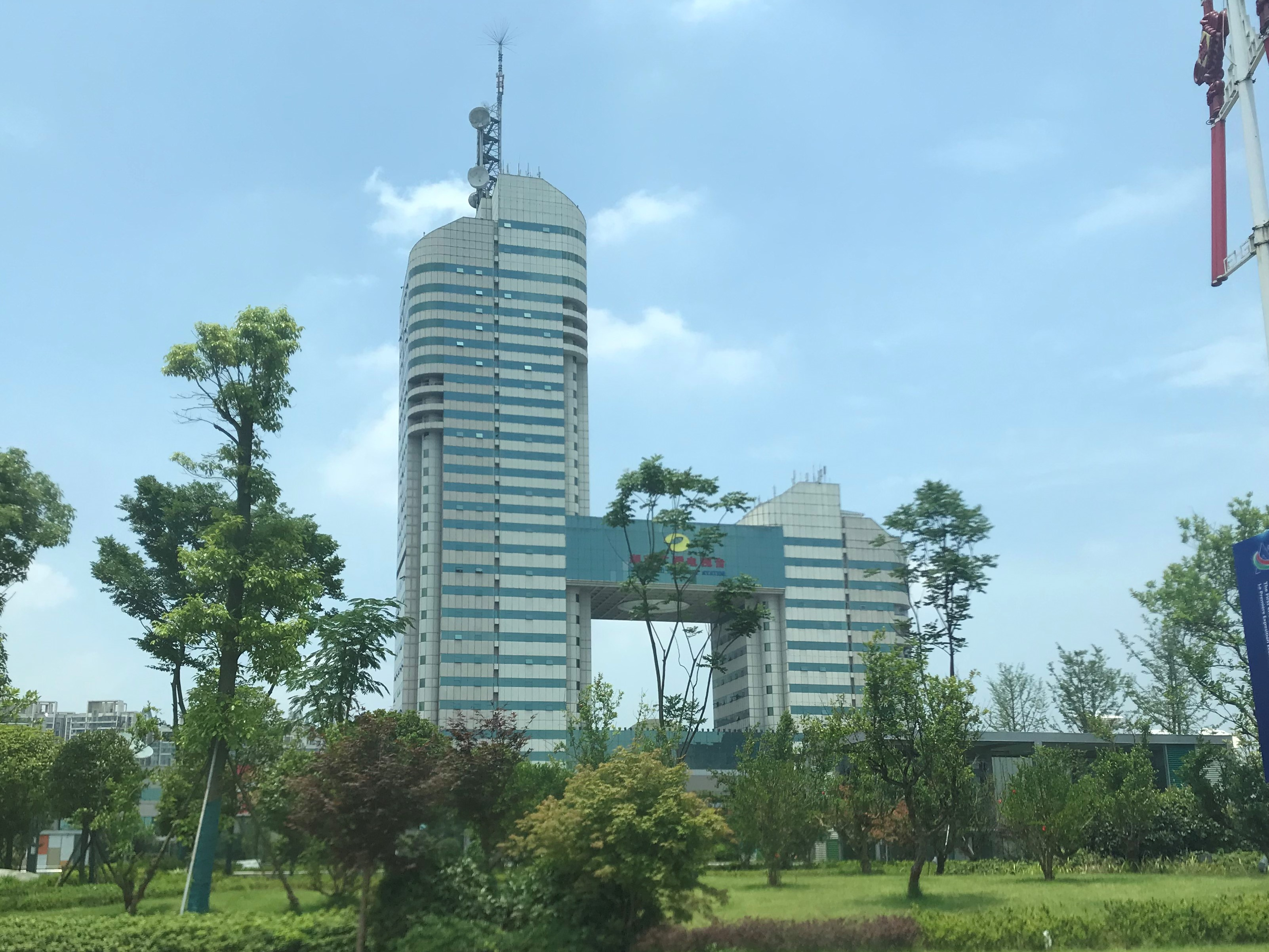 The famous "Malanshan"...